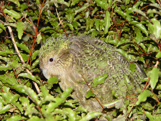 Kakapo Pounamu, showing how the bird's plumage acts as camouflage in vegetation.